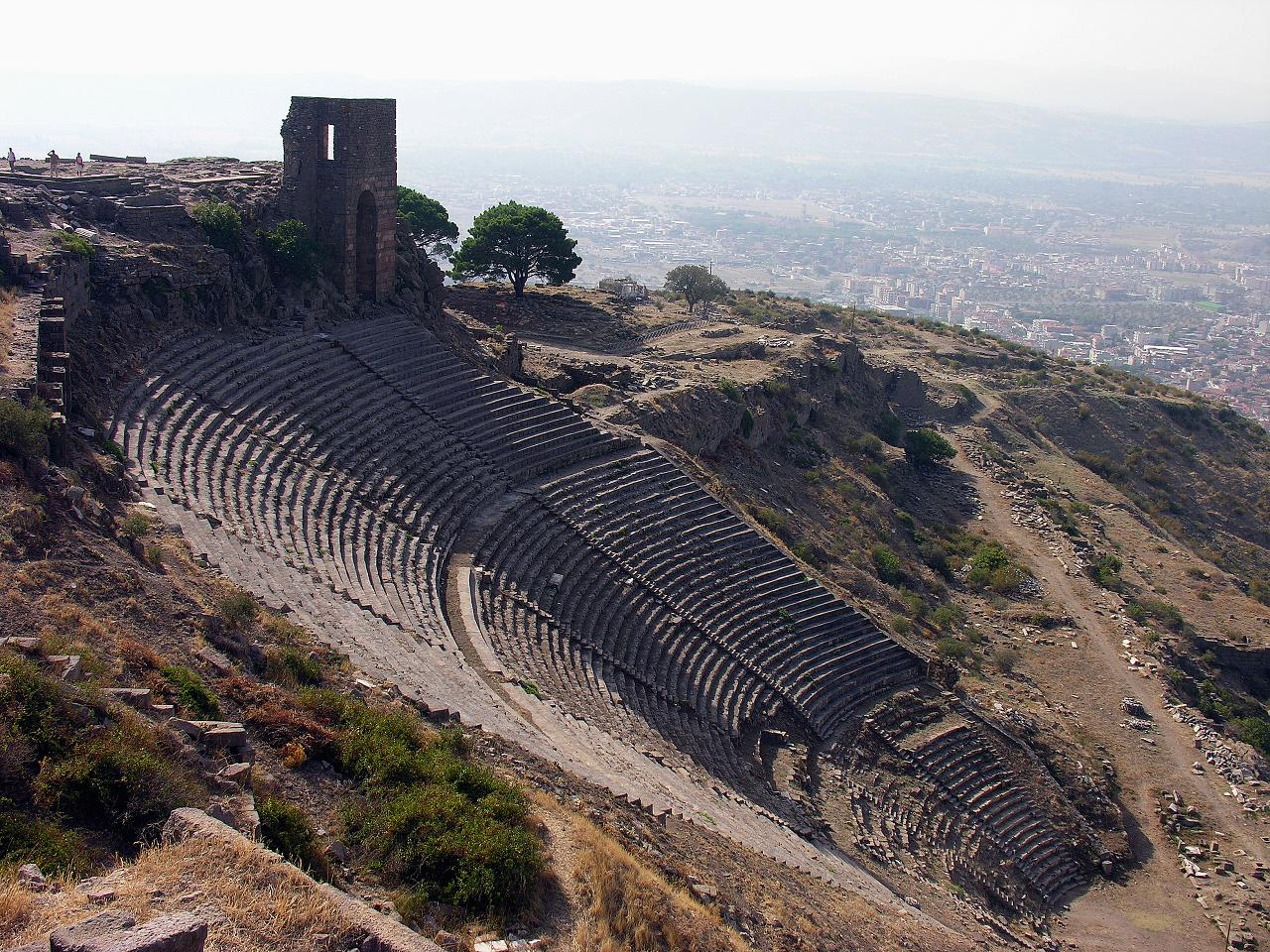 Theatre of Pergamon, one of the steepest theatres in the world, has a capacity of 10,000 people and was constructed in the 3rd century BC.